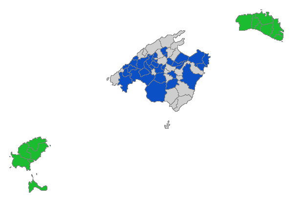 Anti-bullfighting municipalities in the Balearic Islands Declared anti-bullfighting municipalities of Mallorca Islands without a bullfighting tradition